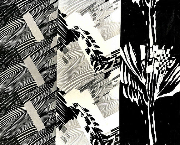 Signe Kivi diplomitöö Trükikangad 1980